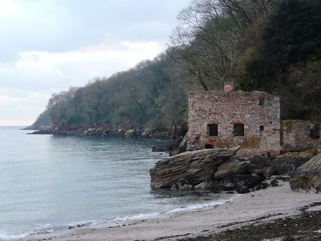 Old bathing house, Elberry Cove This cove is used by noisy powered jetskis, etc, in the summer. In December, thankfully, this beach is quiet, save for a few locals out for a walk.